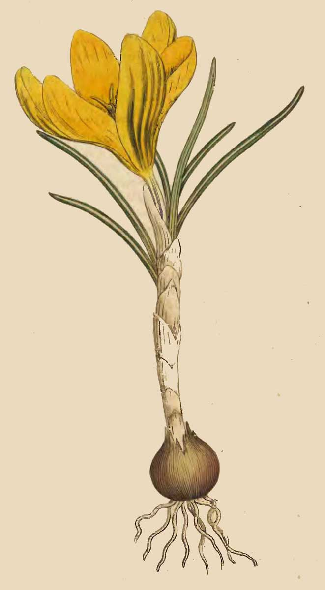 Artwork of a species chronicled in the second volume of The Botanical magazine